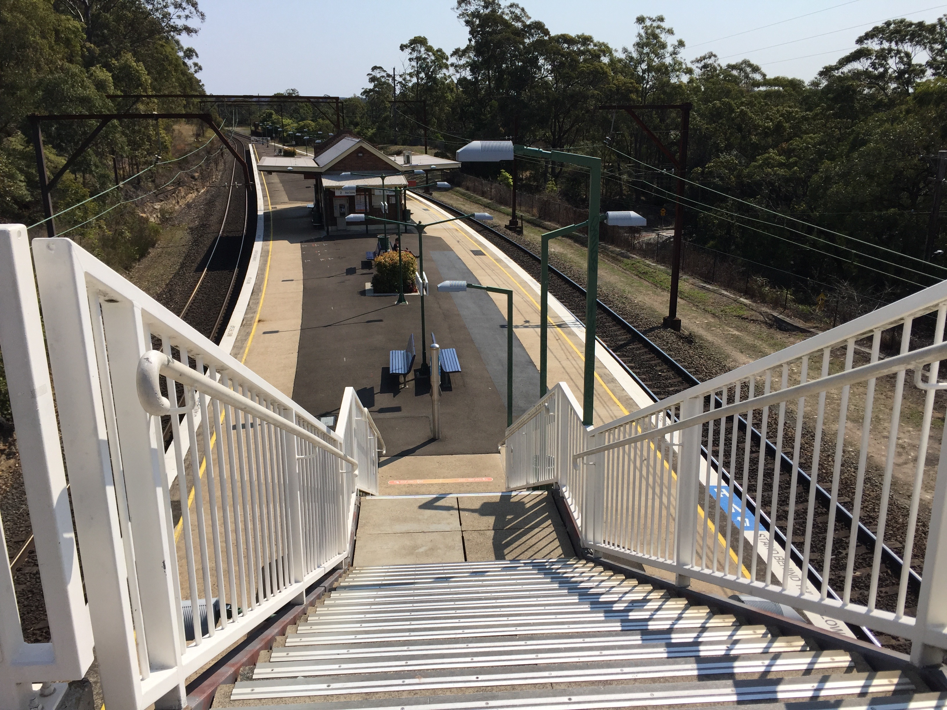 Blue Mountains train line